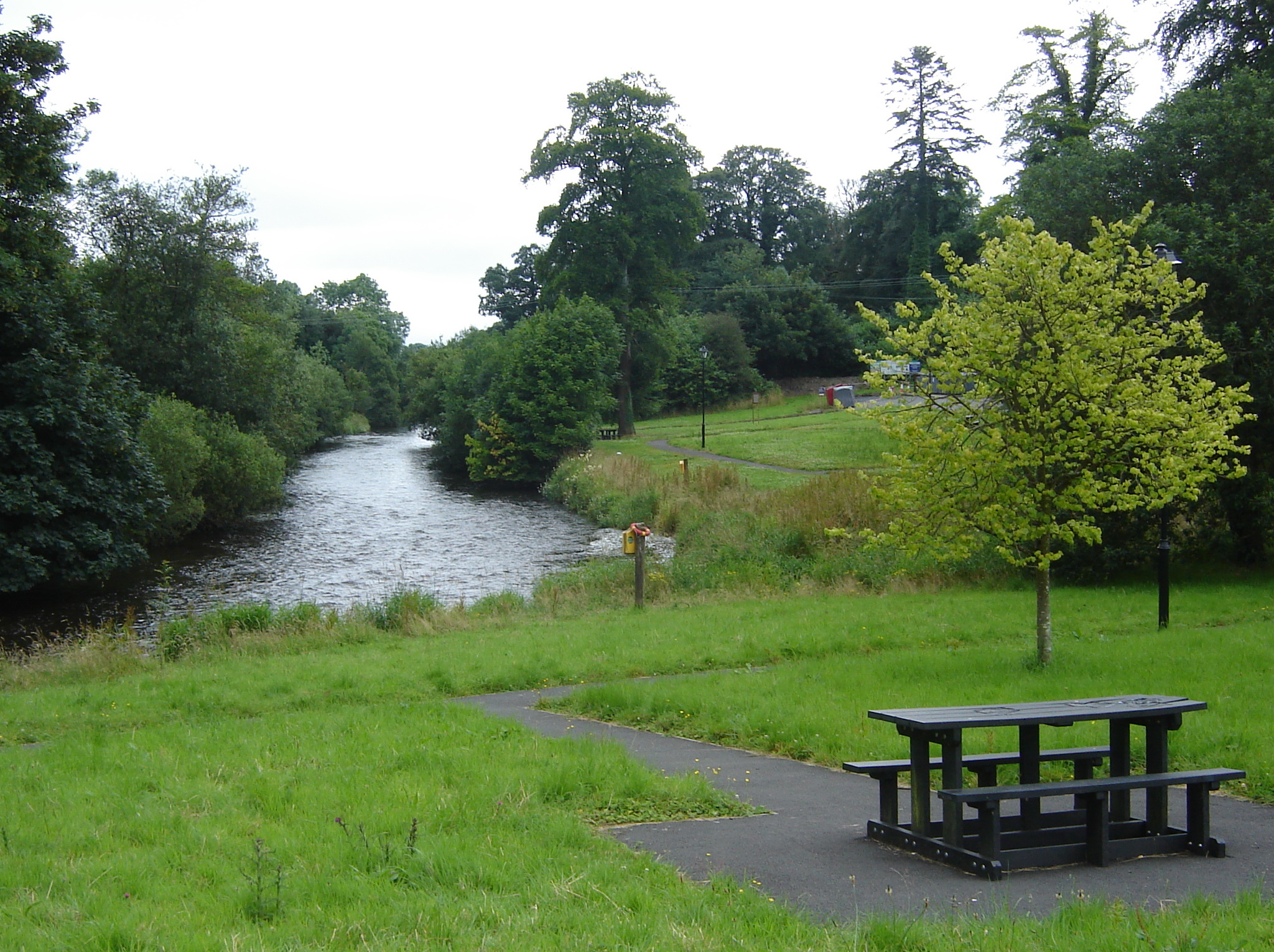 River Annalee across from A gricultural college Ballyhaise, Co. Cavan, Ireland.